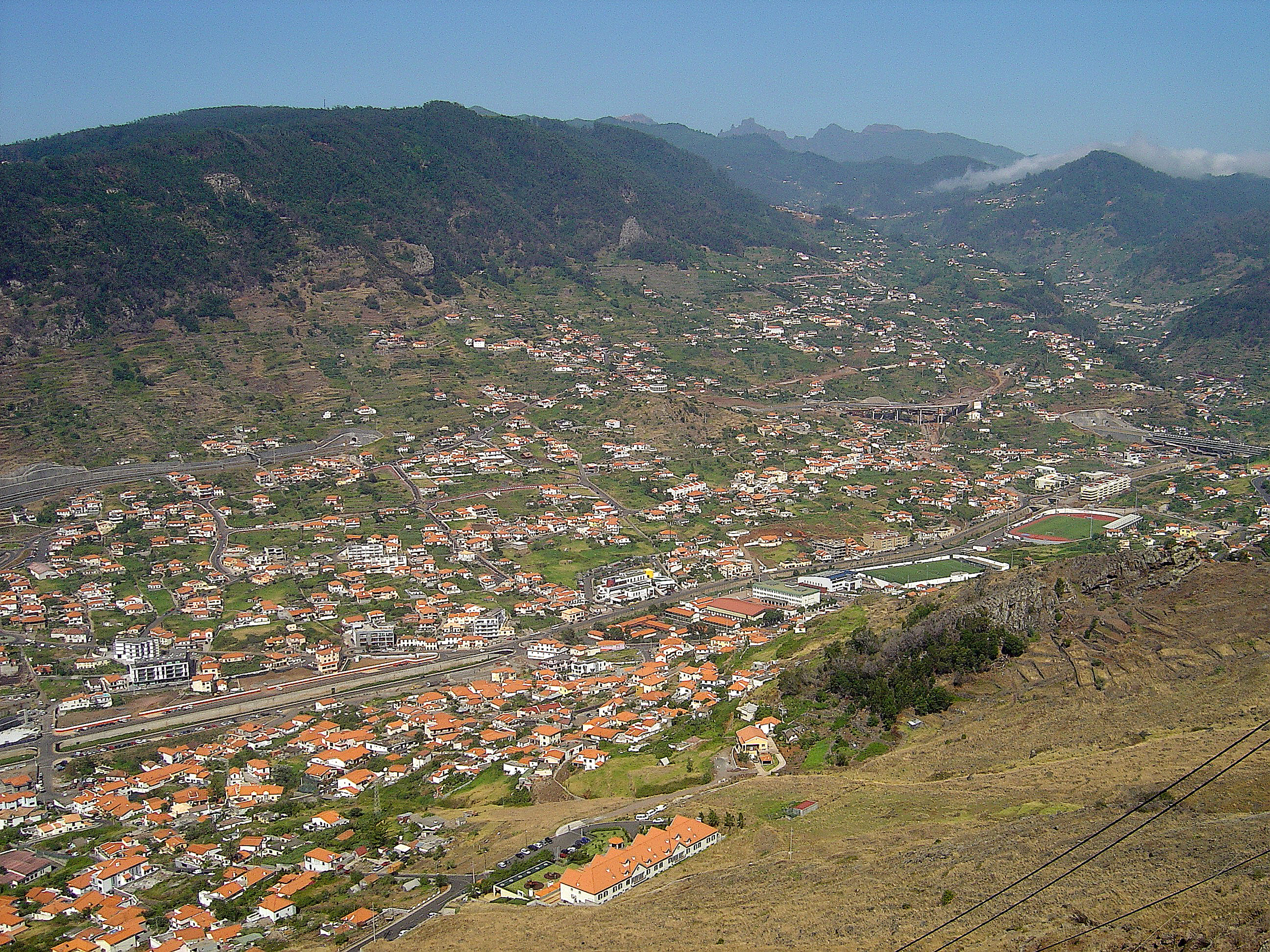 See where this picture was taken. [?]